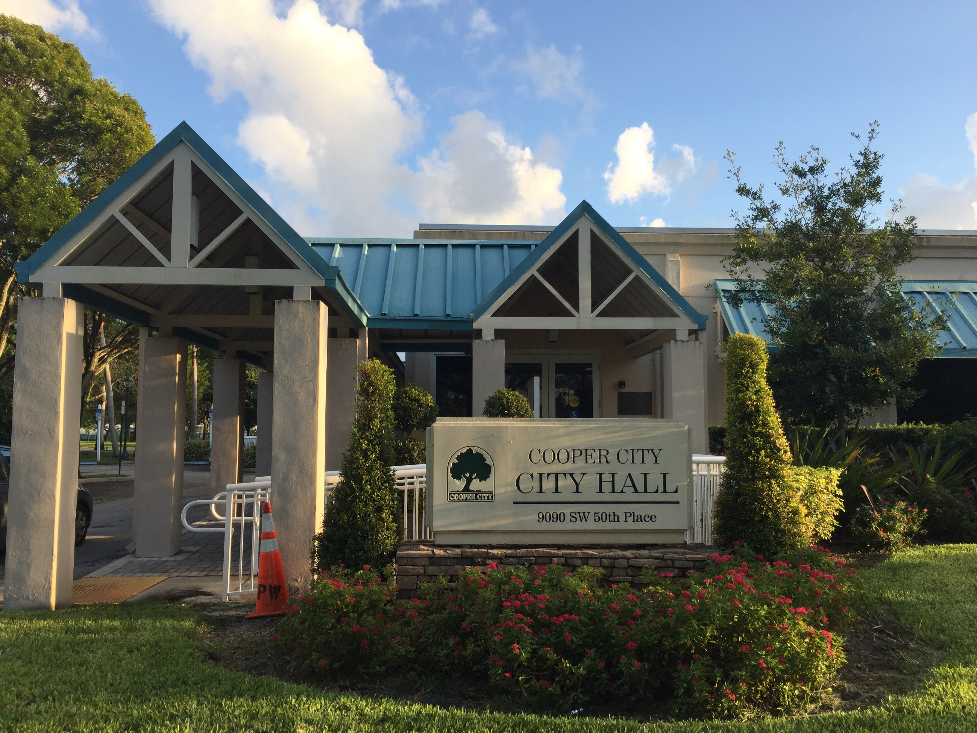 City Hall in Cooper City, Florida (Thanks to Tom and Judy)